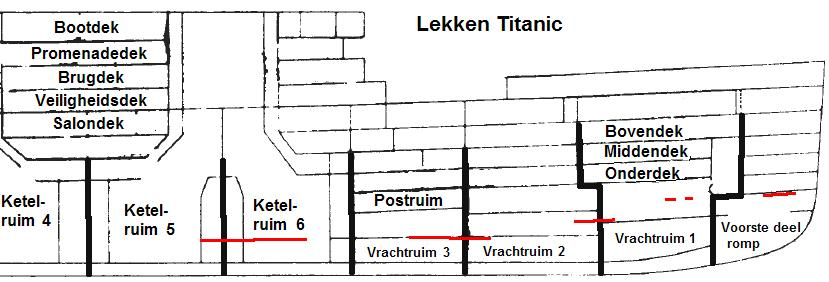 Dutch translated version of the German image (see below)